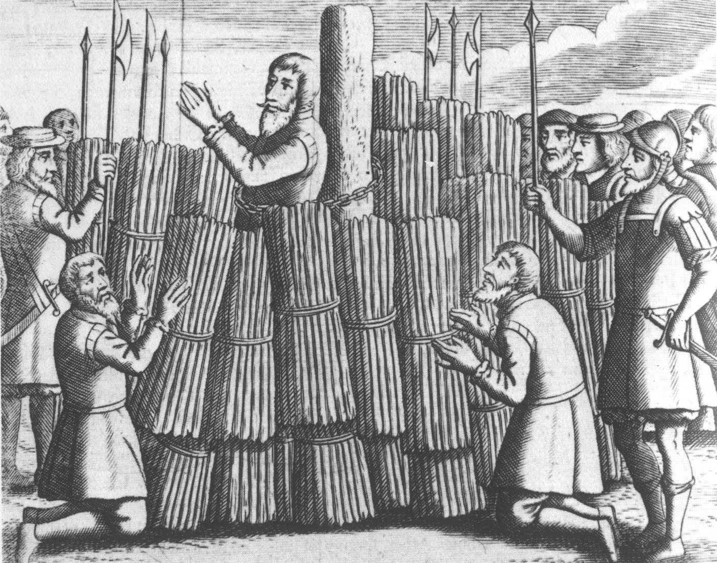 "I am four score years old, and cannot live long by course of nature, but a hundred better shall rise out of the ashes of my bones." -- Walter Milne, 1558